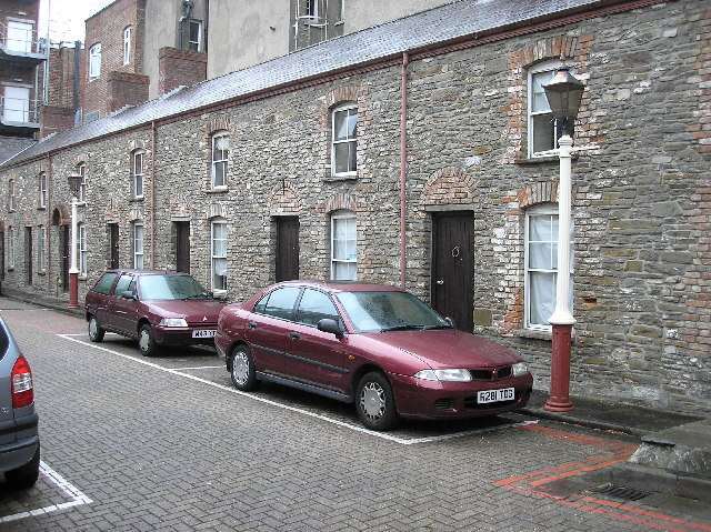 Jones Court, Cardiff city centre. Jones Court was built in the 1830's by the Marquis of Bute to house workers during the construction of Cardiff docks. Before shops appeared in the city centre there were lots of these courtyards all over to house the workers.